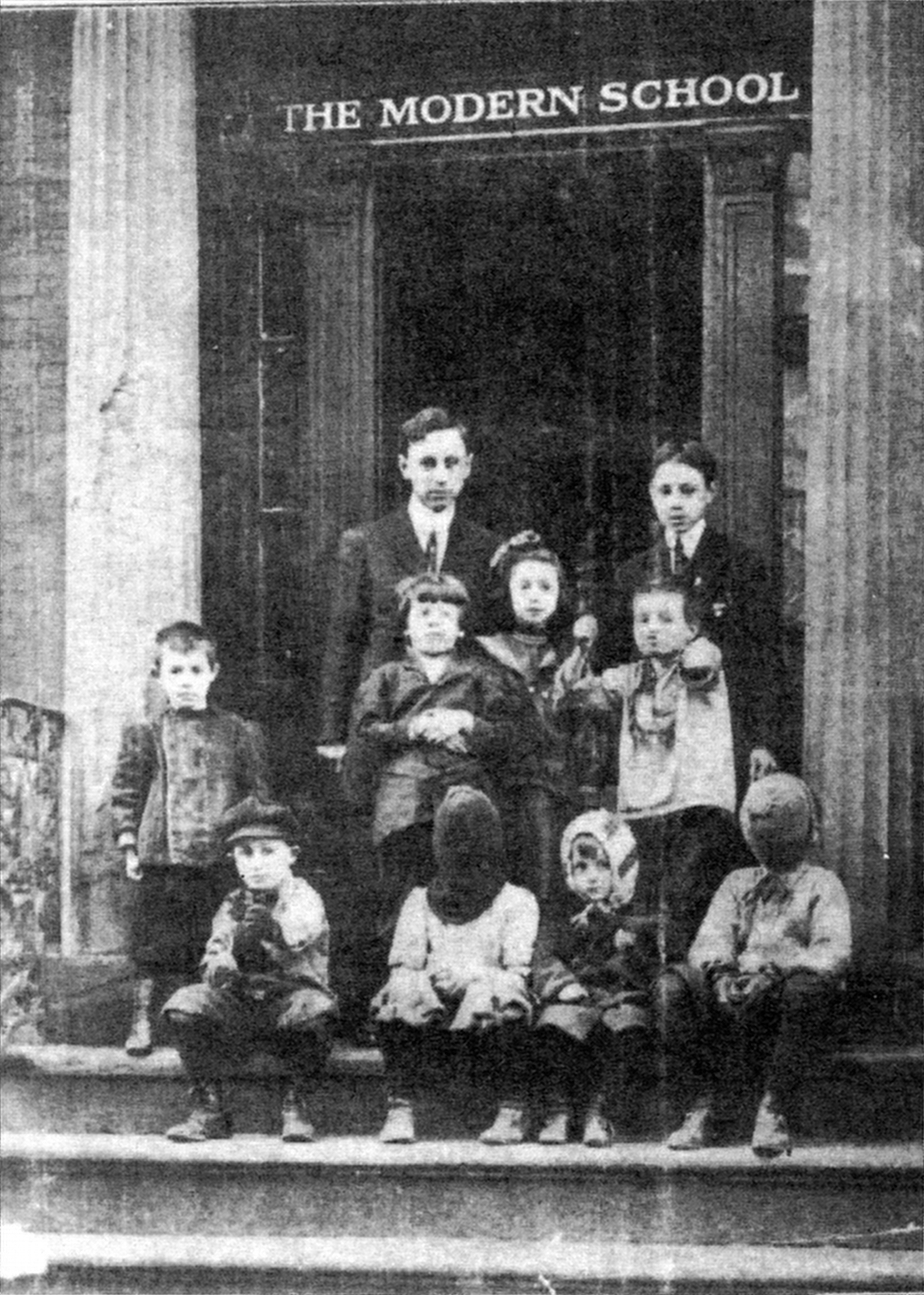 The Modern School in New York City, circa 1911-12. Will Durant stands with his pupils. Persons: Will Durant (top, at left) Magda Boris, daughter of actor Paul Orleneff, the later Magda Schoenwetter (seated, third from left) middle row, left to right: Révolte Bercovici, daughter of anarchists Konrad and Naomi Bercovici Amour Liber, son of physician and anarchist Benzion Liber and cousin of the Bercovici brothers Ruth, called Root the Beaut because of her beauty Gorky Bercovici, son of anarchists Konrad and Naomi Bercovici Durant's other pupils (probably also on the photo) were: Stuart Sanger, son of architect William Sanger and his wife Margaret Hyperion Bercovici, son of anarchists Konrad and Naomi Bercovici Oscar Sophie Boris, daughter of actor Paul Orleneff Source of the information: The Stelton Modern School on . Paul Avrich, The Modern School Movement: Anarchism and Education in the United States, 1980, pp. 79 and 86. ISBN 9781904859093. Paul Avrich, Anarchist Voices: An Oral History of Anarchism in America, AK Press, 2005, articles Révolte Bercovici, Amour Liber, and Magda Schoenwetter. ISBN 9781904859277.